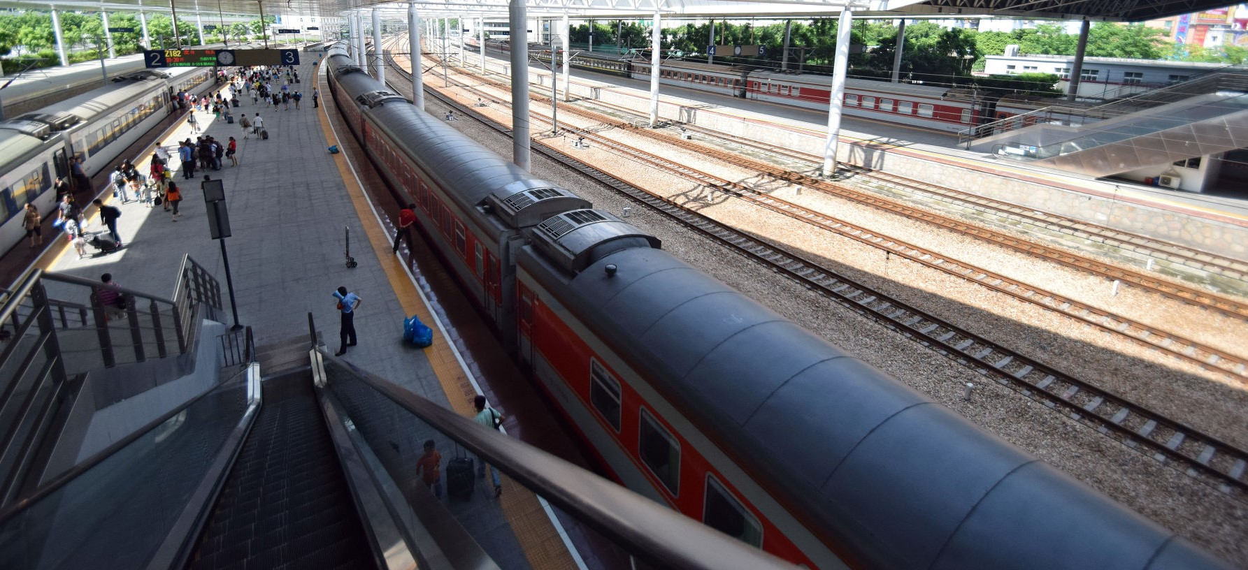 Shenzhen East Railway Station Platform. This is a cropped version of a file previously uploaded to wikimedia by Baycrest